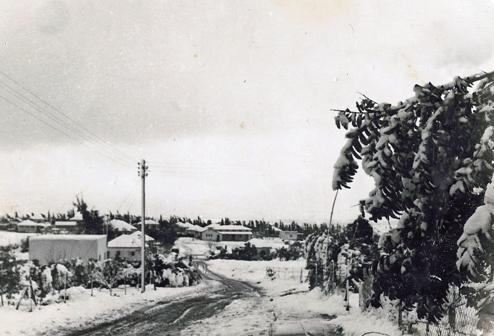 Snow day, Geography of Israel